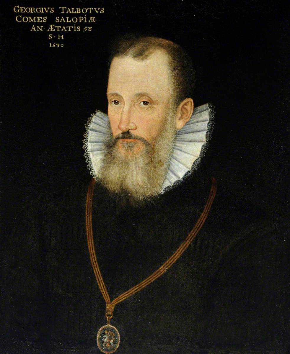 Portrait of George Talbot, 6th Earl of Shrewsbury (1528-1590), National Trust.